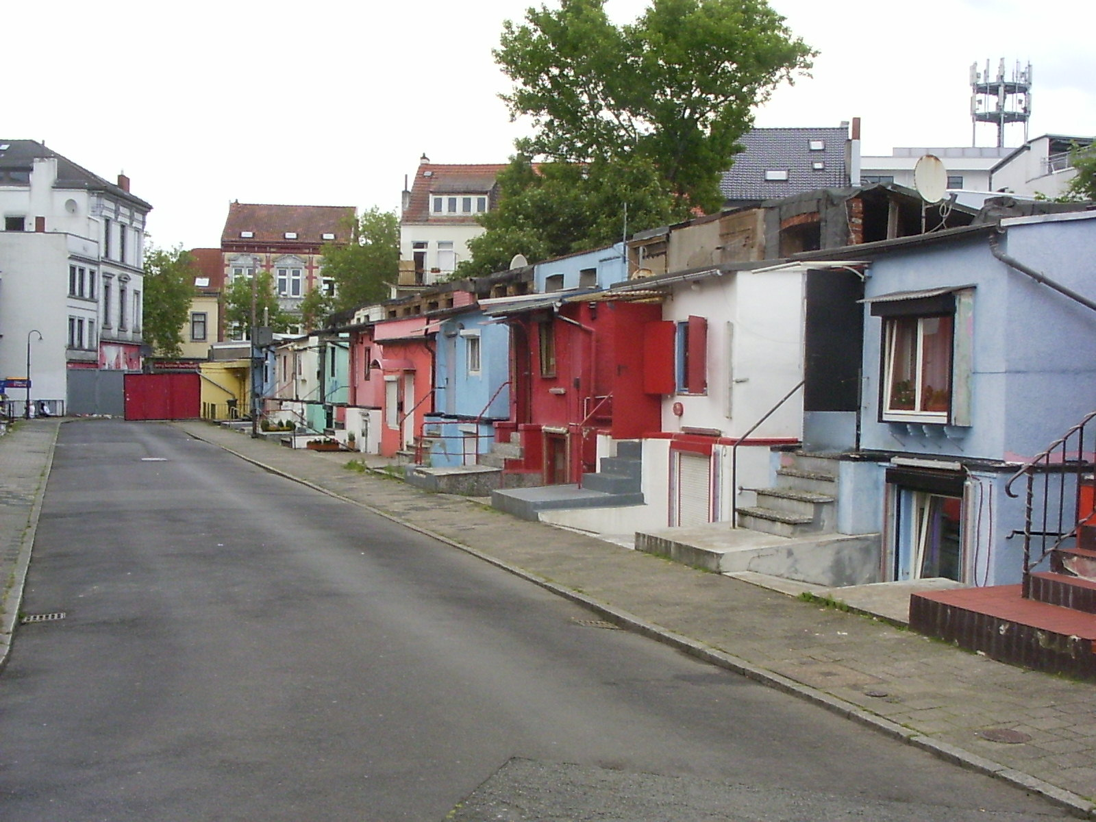 Bremen, red light district Helenenstrasse